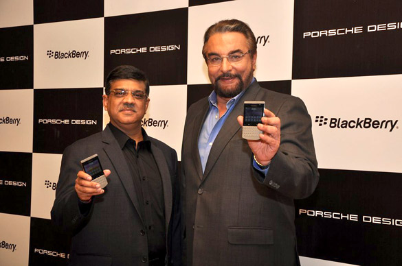 Kabir Bedi poses with Blackberry-Porsche Design P'9981 mobile